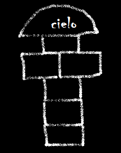 hopscotch